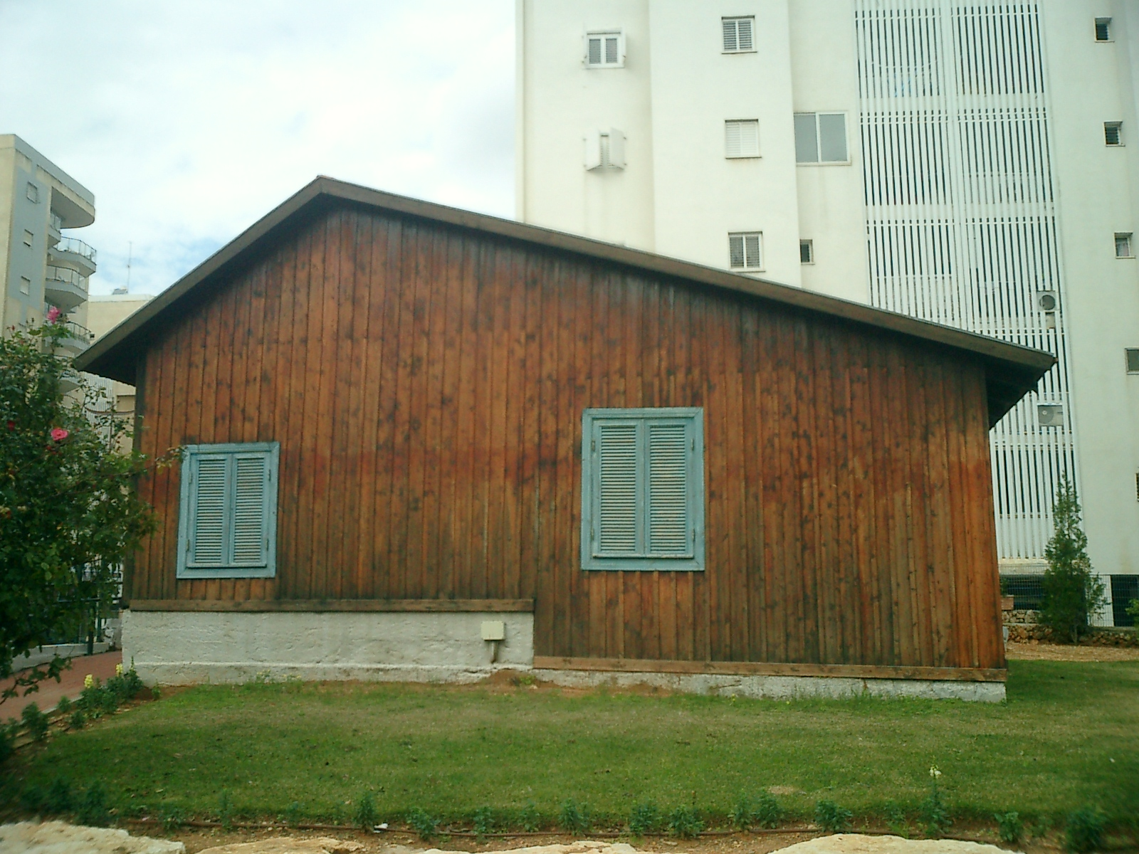 Thw first hut in Magdiel, Hod Hasharon